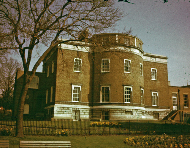 Manor House Library , Lee This building dates from 1788. Photo taken c1960 from Manor House Gardens and scanned from an old slide.